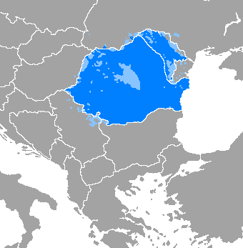 Romanian language Majority areas Minority or billingual areas